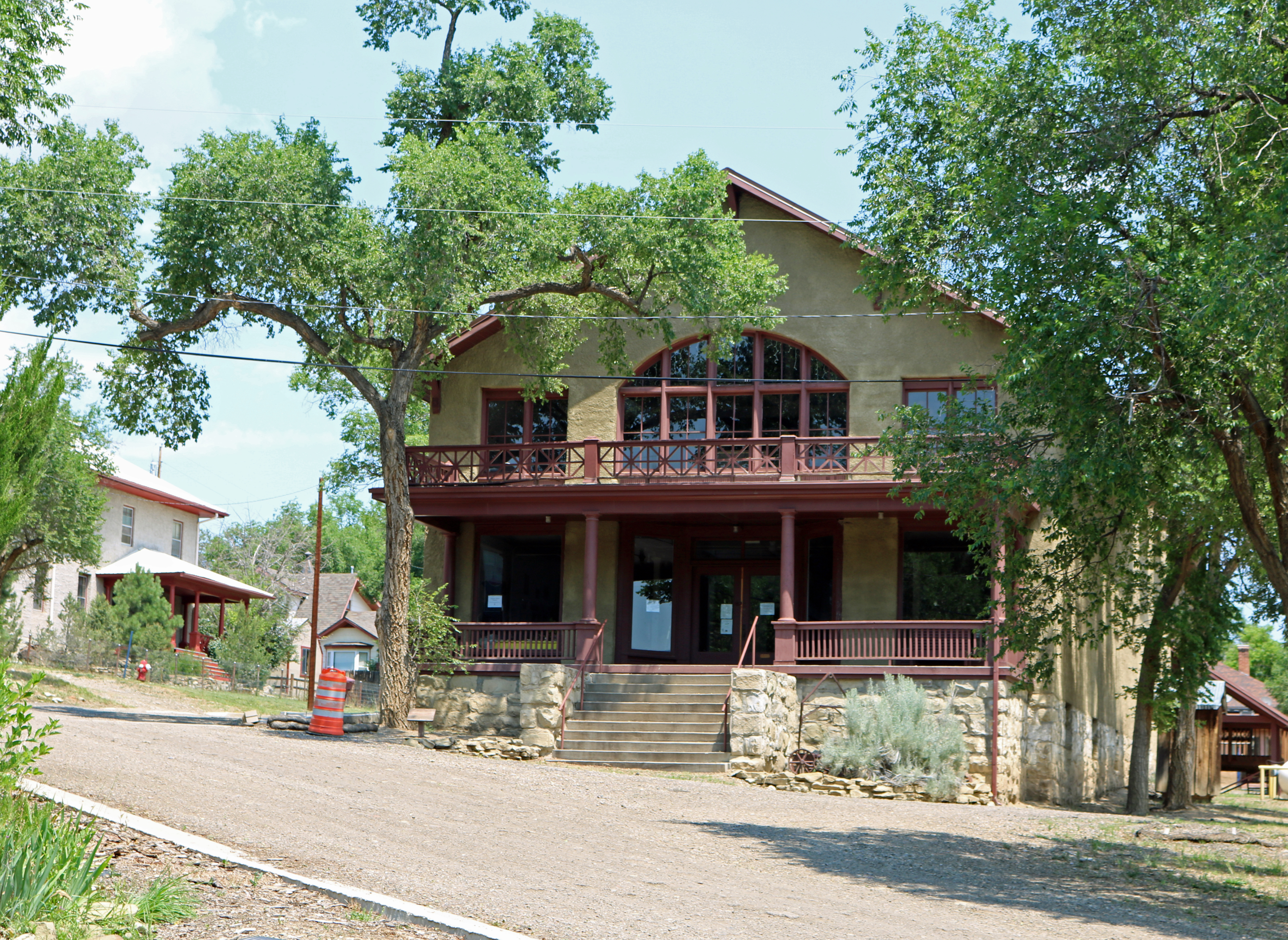 The Gottlieb Mercantile Building, located on Elm Street in Cokedale, Colorado. The building, formerly the mine store, now is home to the Cokedale Mining Museum, the town hall, and the post office. It is part of the Cokedale Historic District.